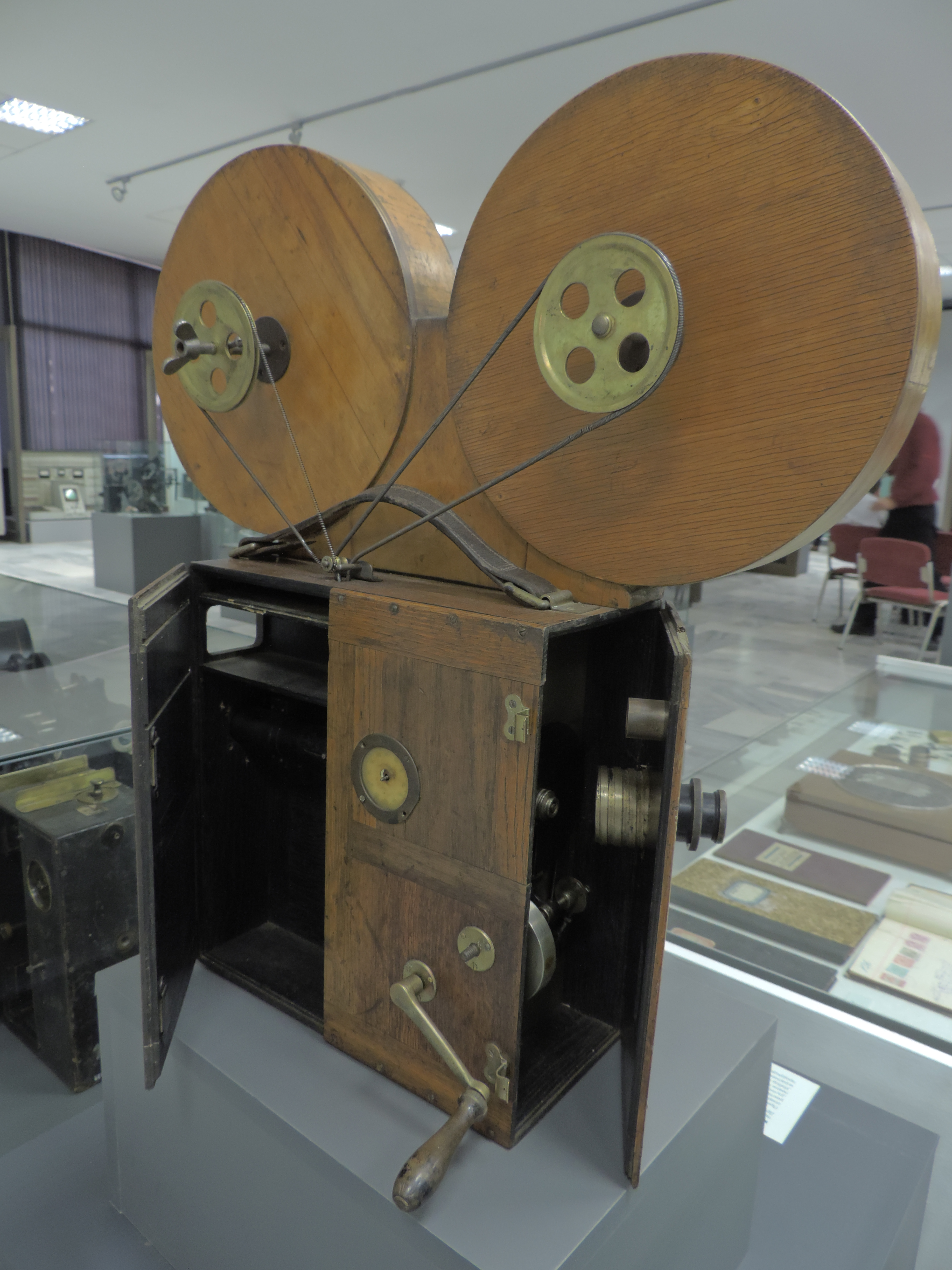 Cinematographic camera, produced by Ernemann Werke A.G., which belonged to the Bulgarian photographer and amateur operator Spas Totev. Exhibit of the National Polytechnic Museum in Sofia, Bulgaria.